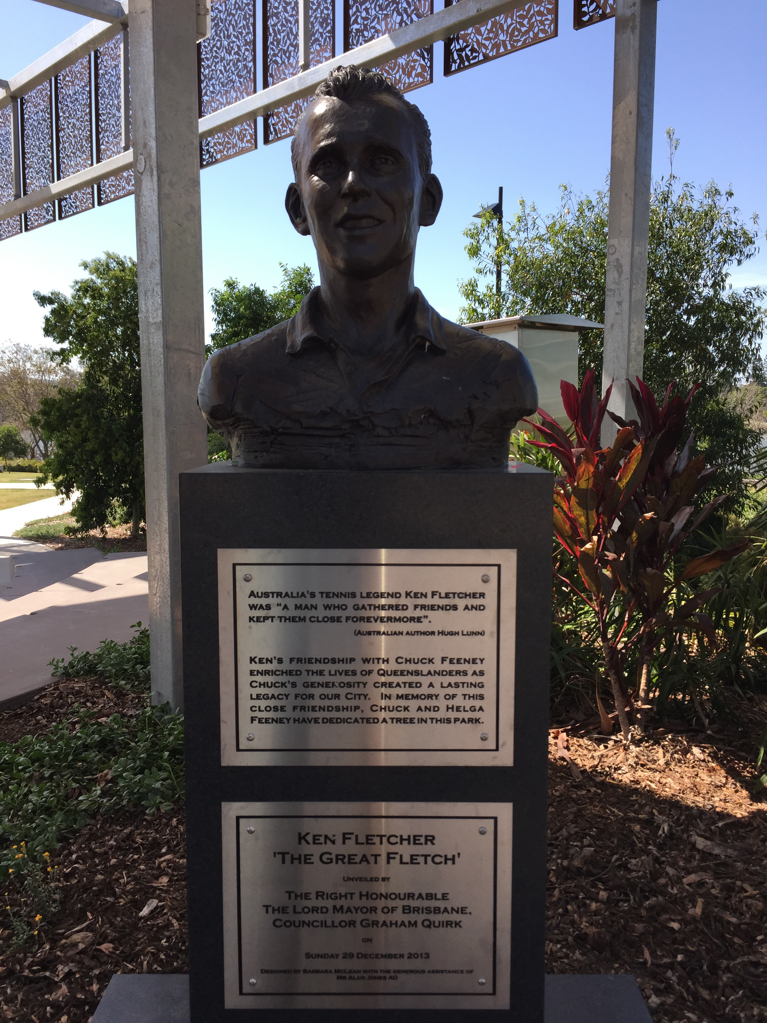 Ken Fletcher Memorial in front of the Queensland Tennis Centre, King Arthur Terrace, Tennyson, Queensland